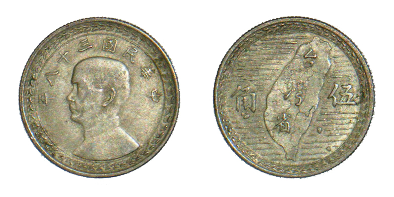 Taiwan-5Chiao-1949